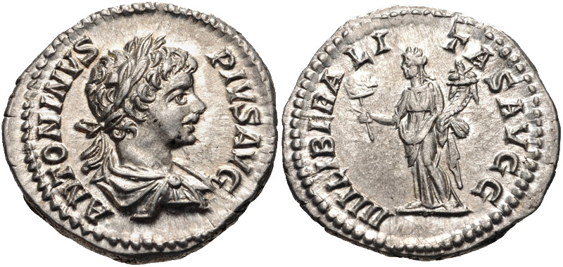 Caracalla. AD 198-217. AR Denarius (19mm, 3.34 g, 6h). Rome mint. Struck AD 204. ANTONINUS PIUS AUG, Laureate, draped and cuirassed bust right IIII LIBERALI-TAS AUGG, Liberalitas standing left, holding abacus and cornucopia. RIC IV 135; RSC 122.